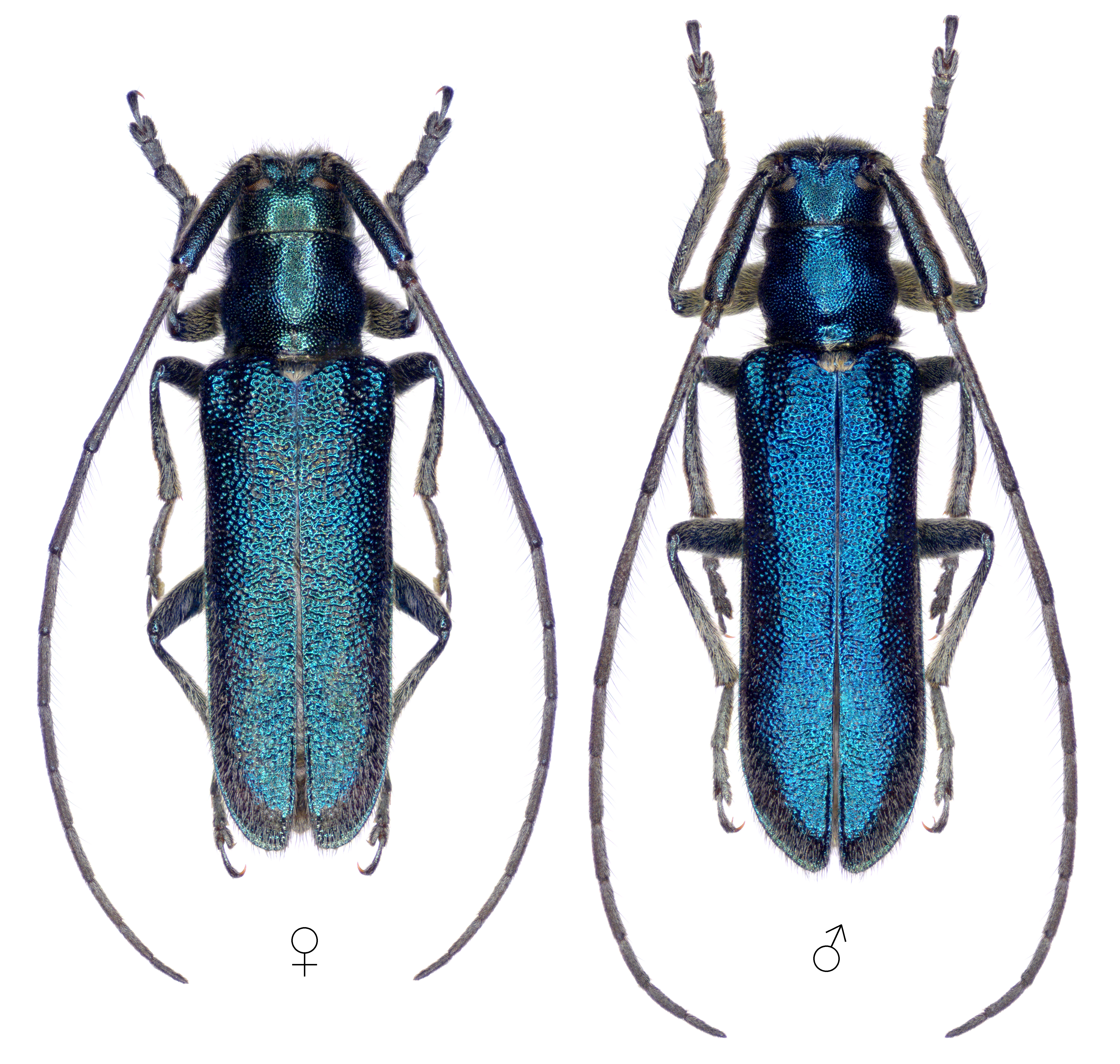 Agapanthia (Smaragdula) violacea Fabricius, 1775 (Coleoptera, Cerambycidae).